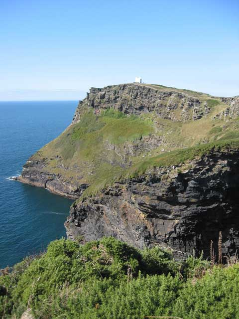 Coastguard hut above Boscastle Harbour.